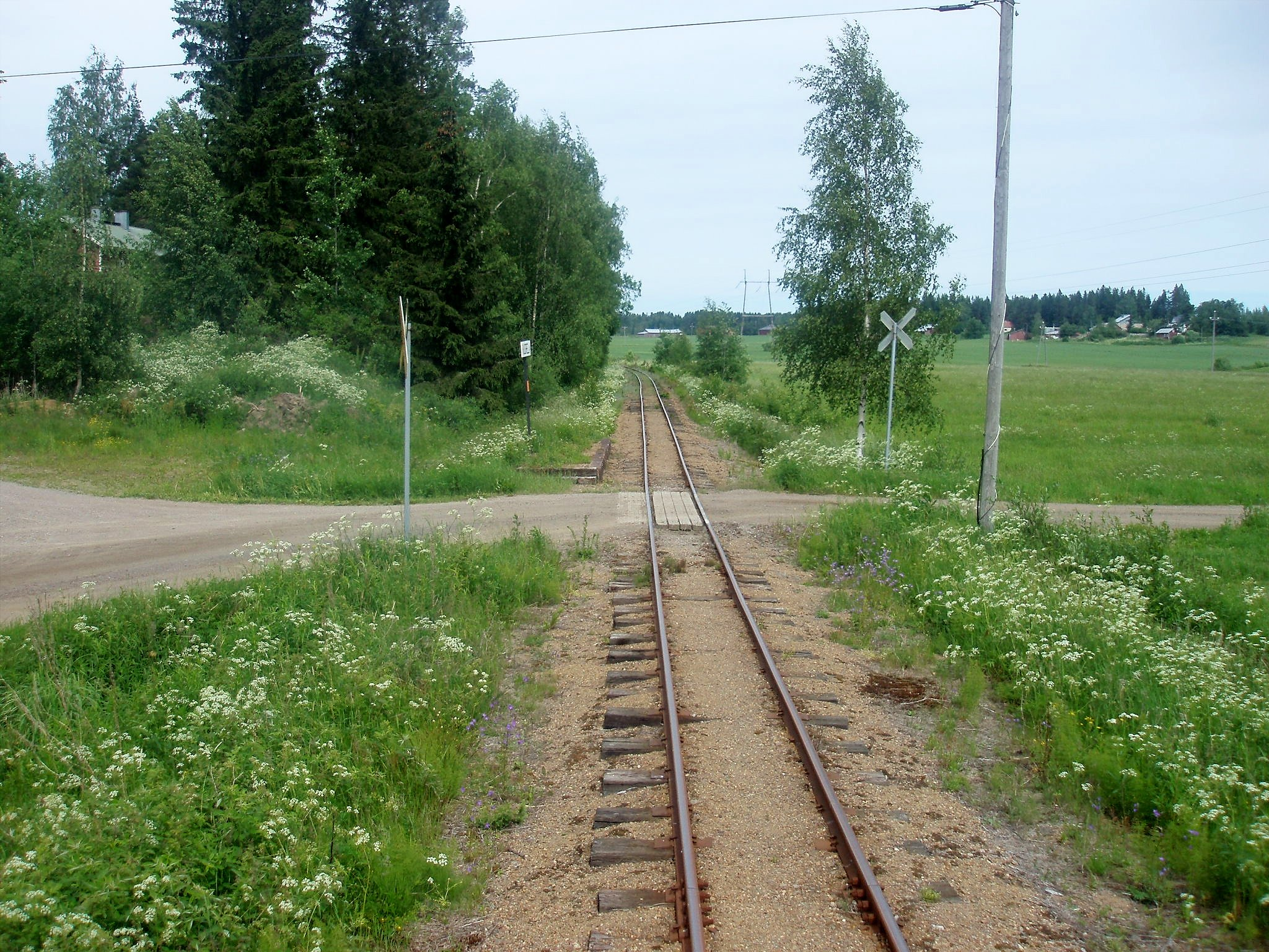 Vuorela railway stop on Jokioinen Museum Railway in Humppila, Finland.